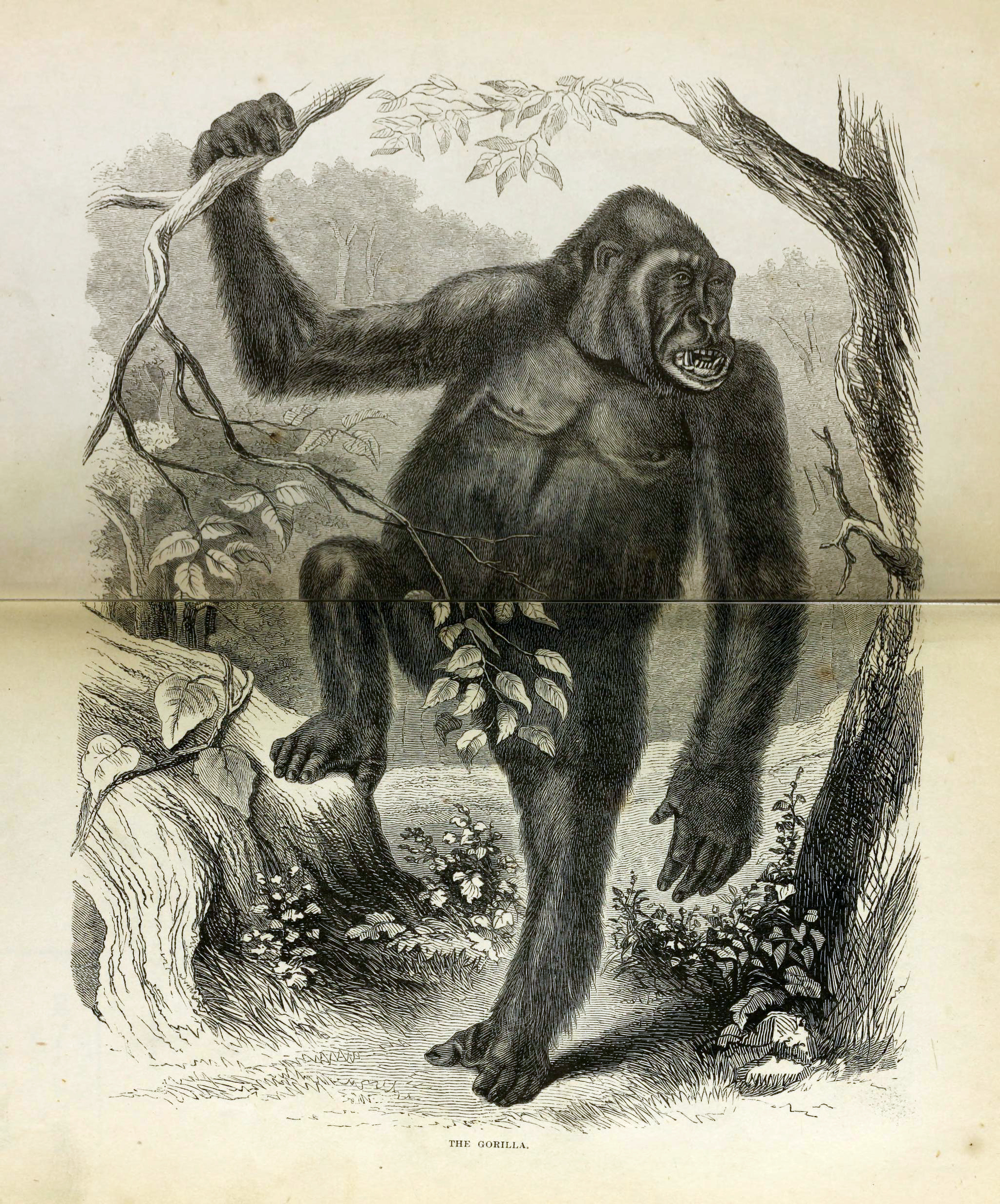 Explorations and adventures in Equatorial Africa, frontispiece